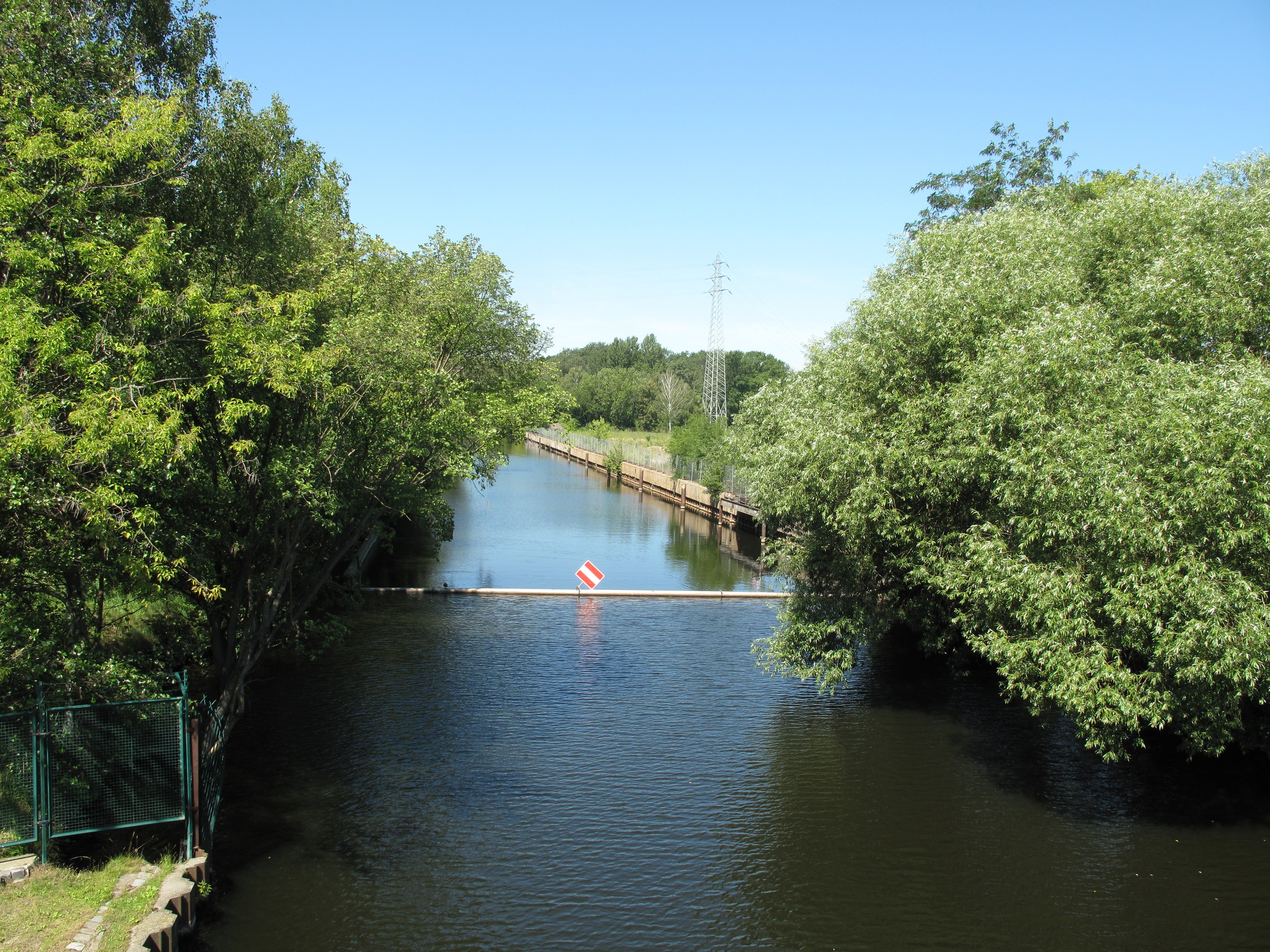 The Teufelsseekanal is a branch canal of the river Havel in Berlin, Borough Spandau, locality Hakenfelde. On the northern bank there was in operation until 2002 the power station „Kraftwerk Oberhavel“, which was demolished between 2005 and 2009. At the mouth to the river Havel spans the Oberhavelsteg the canal. The cable-stayed foot- and bikeway bridge is part of the Berlin-Copenhagen Cycle Route and of the Havel Cycle Route (german: Havelradweg).